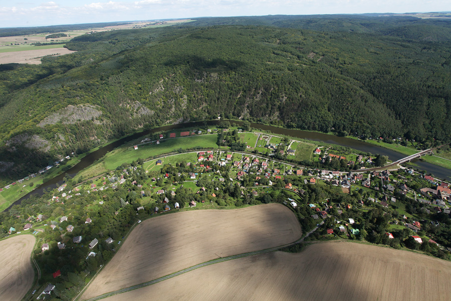 village Žloukovice, Czech Republic